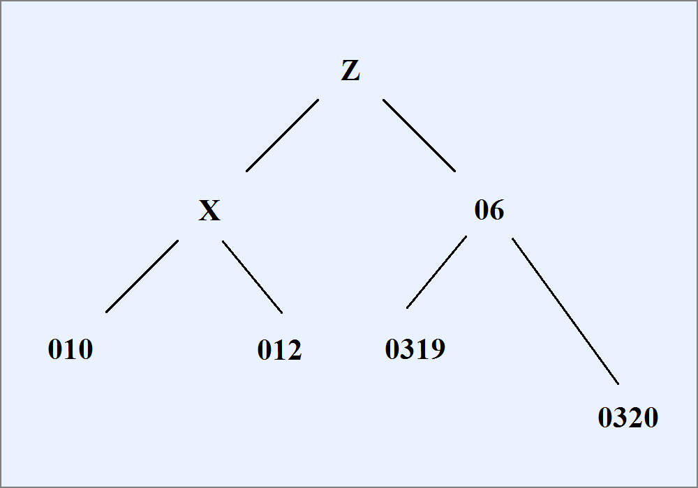 Textual relationship between Greek-Latin diglot manuscripts of the Pauline epistles